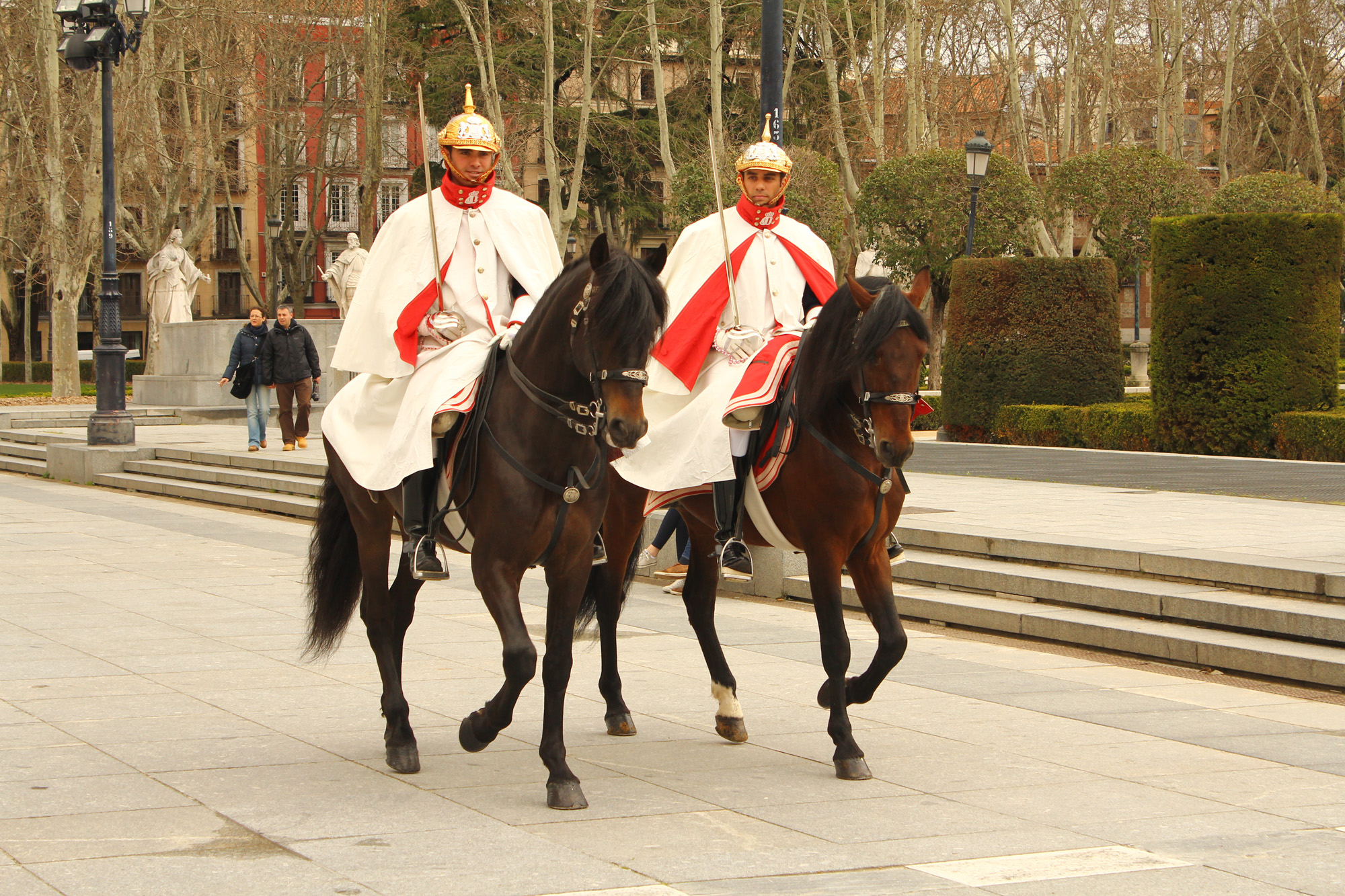 Cuirassiers of the Royal Escort Squadron of the Spanish Royal Guard. They wear white coats to protect them from the rain and ride horse of chestnut coat.